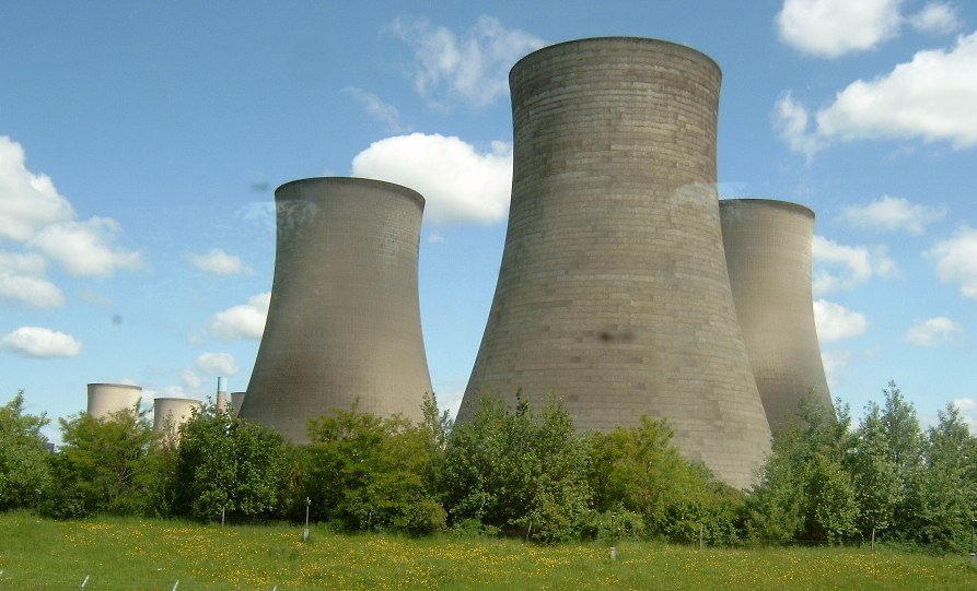 The cooling towers of Didcot Power Station taken from a train just outside of Didcot Parkway Station.